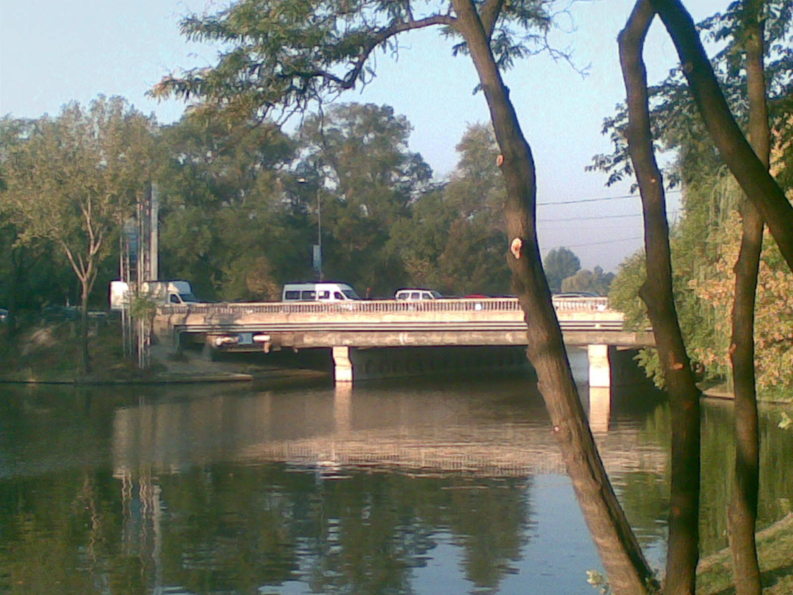 The Băneasa Bridge No. 2